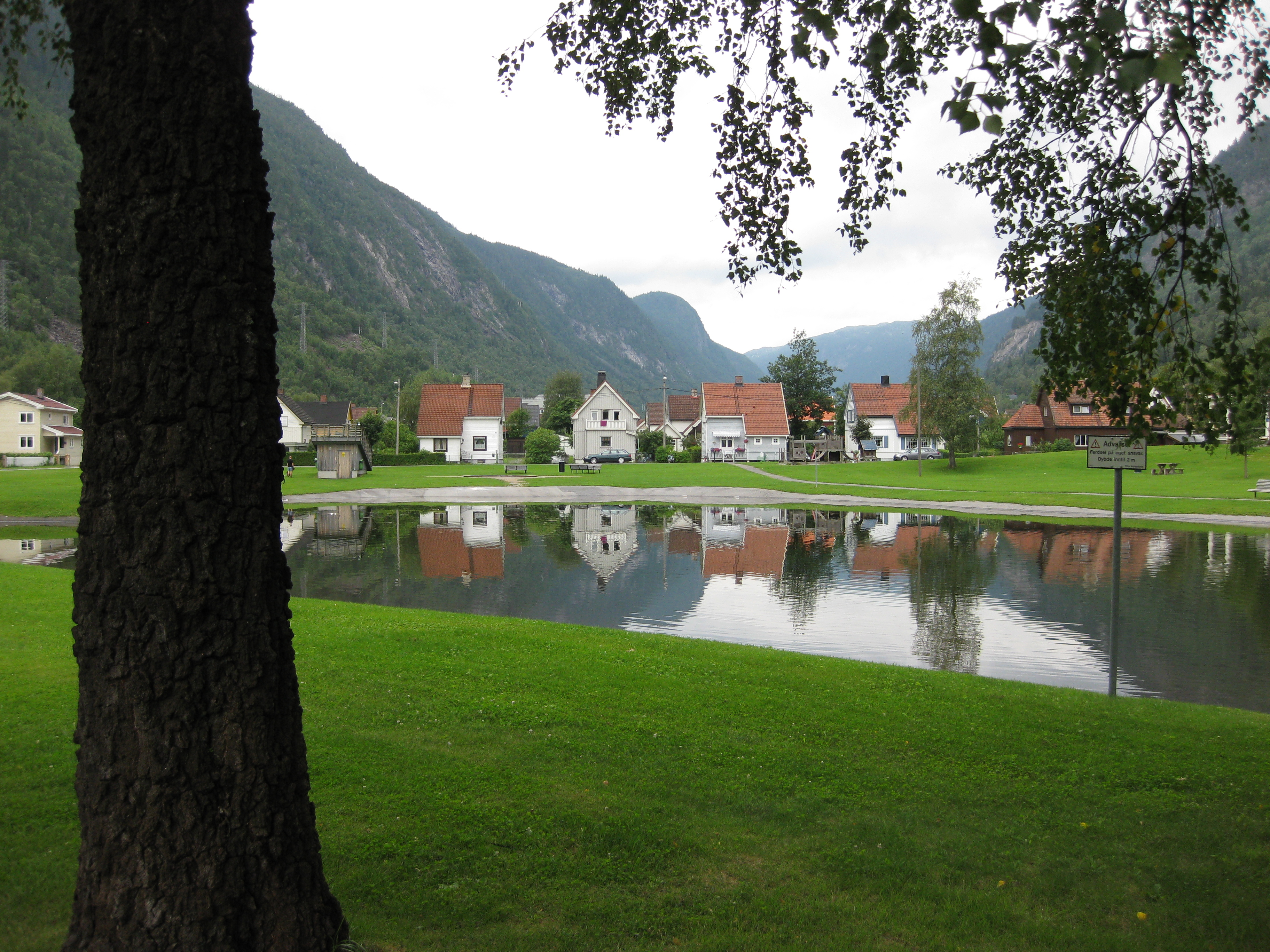 Tveitotjernet, Rjukan